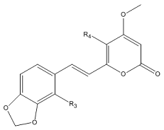 The structure of the fifth class of kavalactones, to be used on the Kavalactones page. Drawn in ChemDraw 10.0 by Yidele, July 2007.